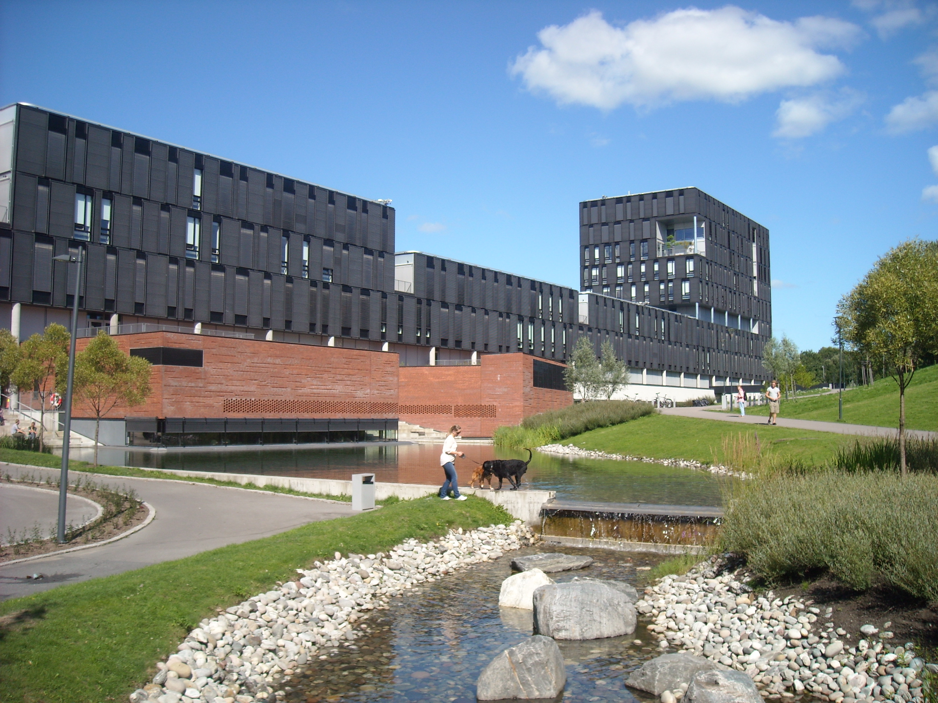 The computer science building at the University of Oslo (Ole-Johan Dahls hus)